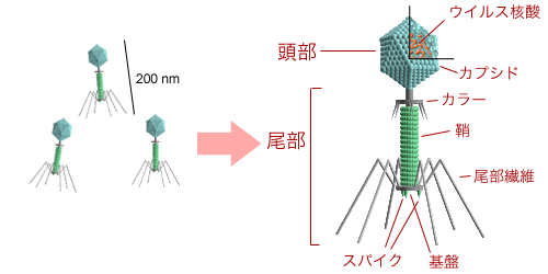 Structure of Bacteriophage T4.